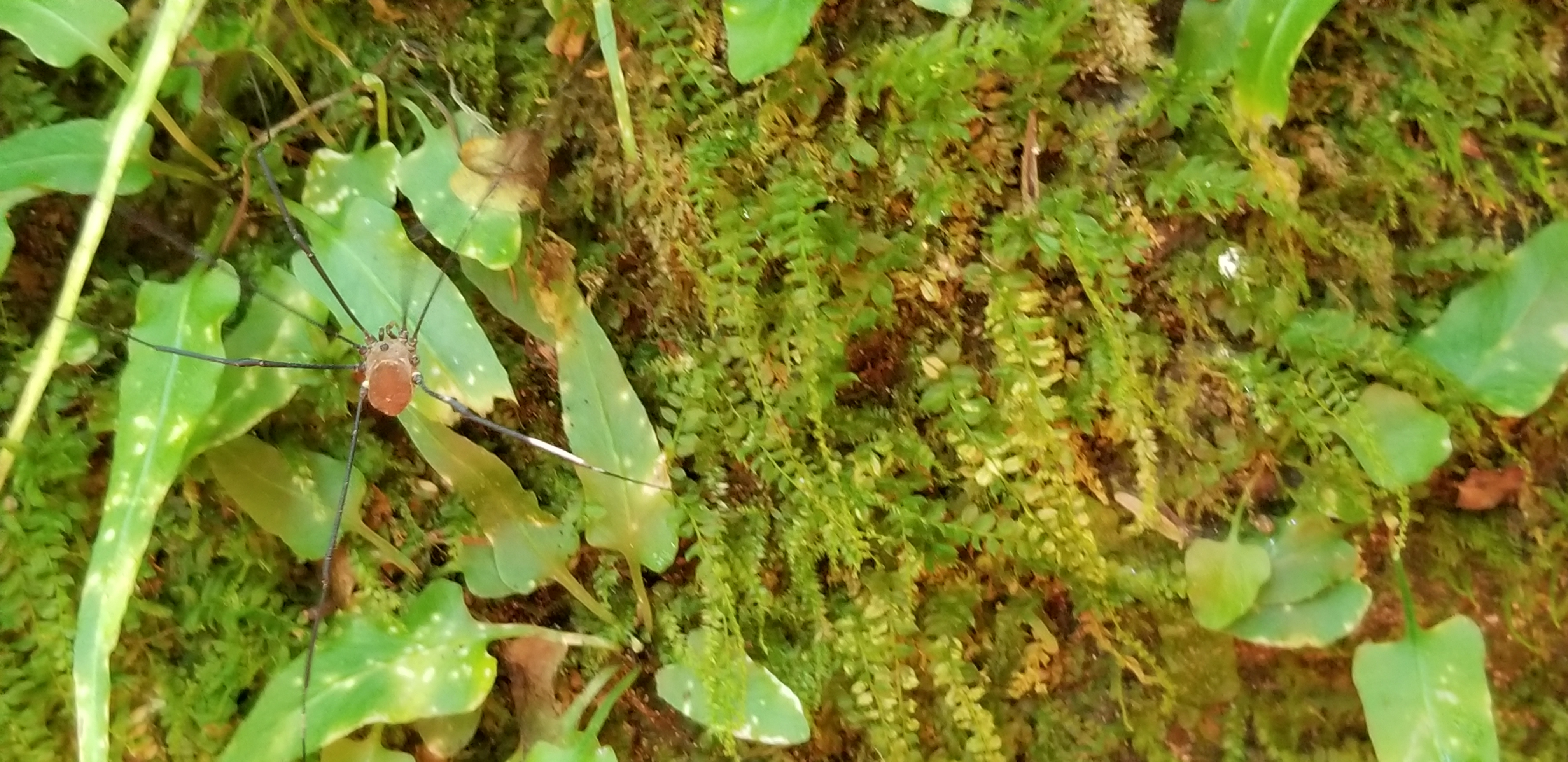 Leiobunum vittatum missing a leg, photographed at Turkey Run State Park in Indiana